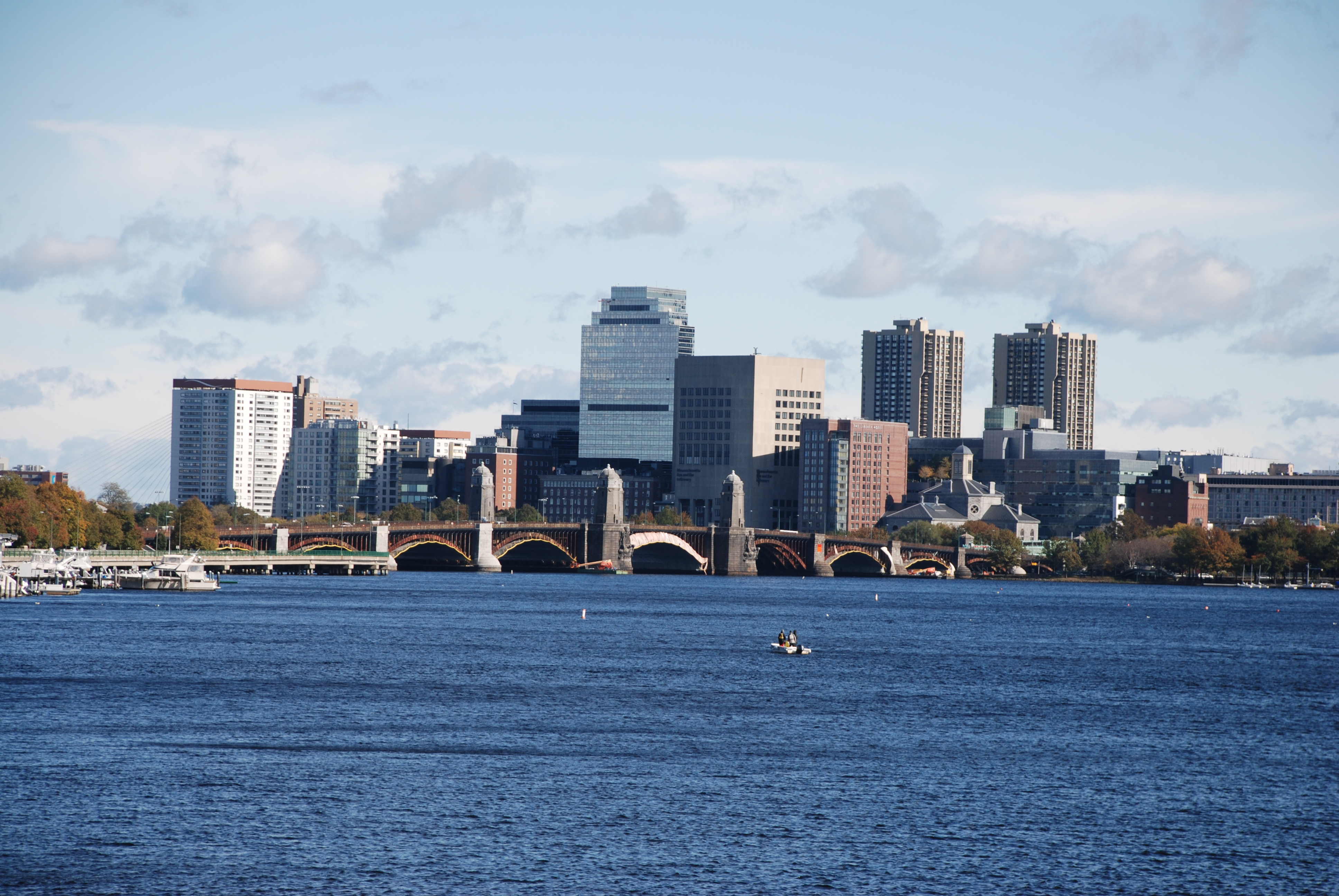 Charles River, Longfellow Bridge, and Boston buildings (Massachusetts, USA)